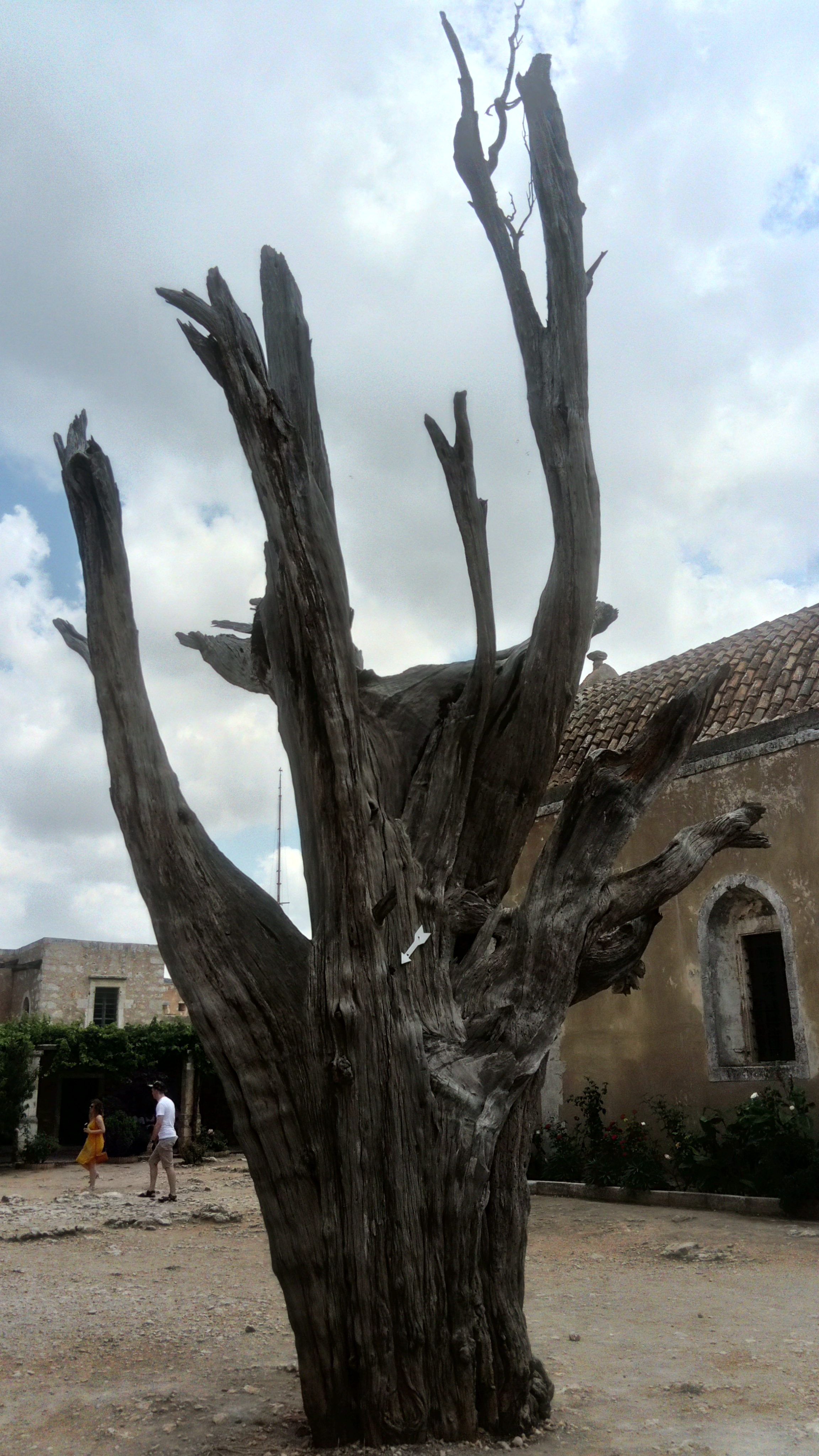 The burnt cypress, remnant of the holocaust which took place in the Arkadi Monastery in Crete. The white arrow points to the place where the tree was shot that day, the bullet being still visible.